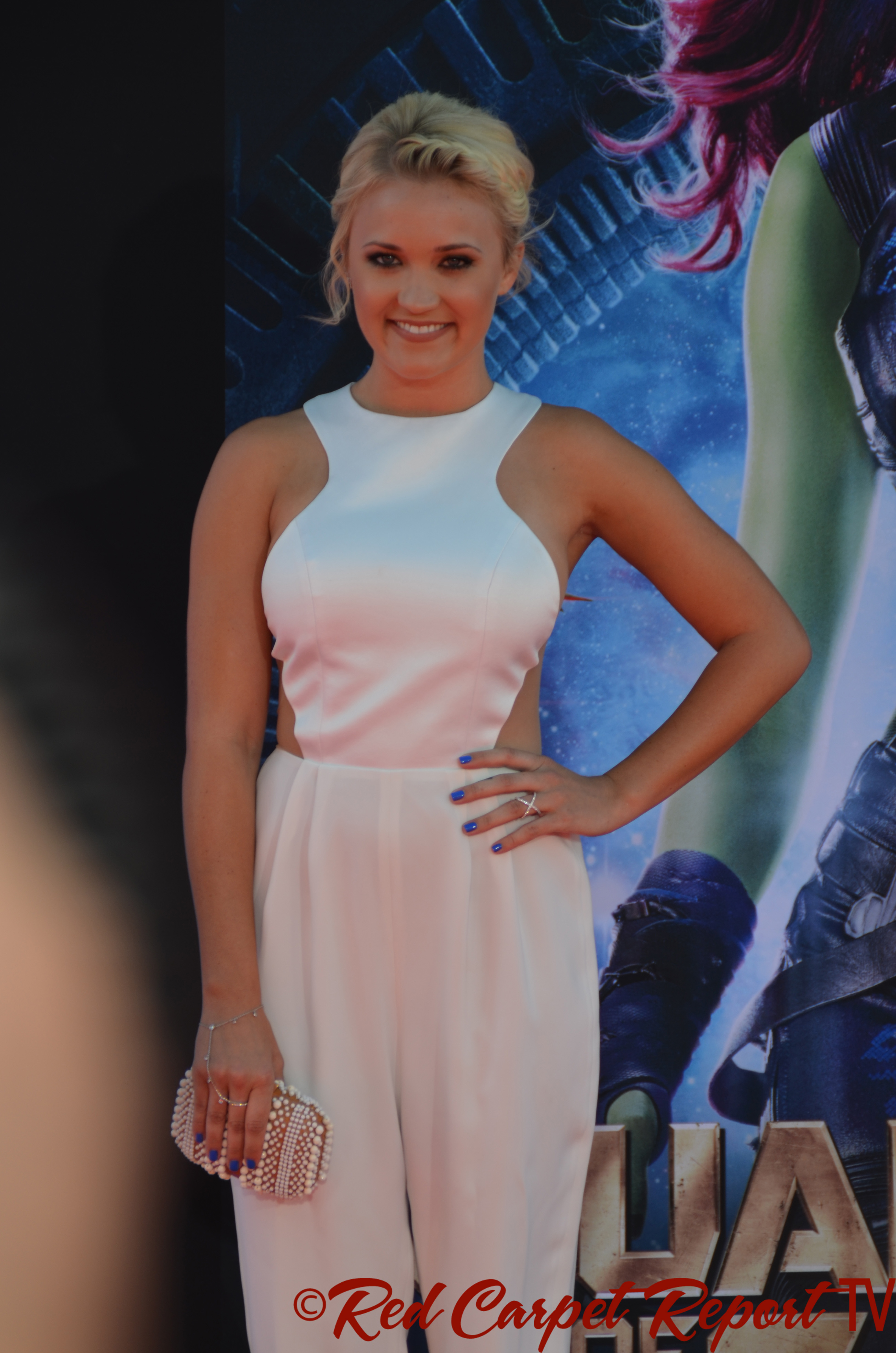 Actress and singer Emily Osment at the Premiere of Guardians of the Galaxy at the El Capitan Theater in Hollywood on July 21, 2014